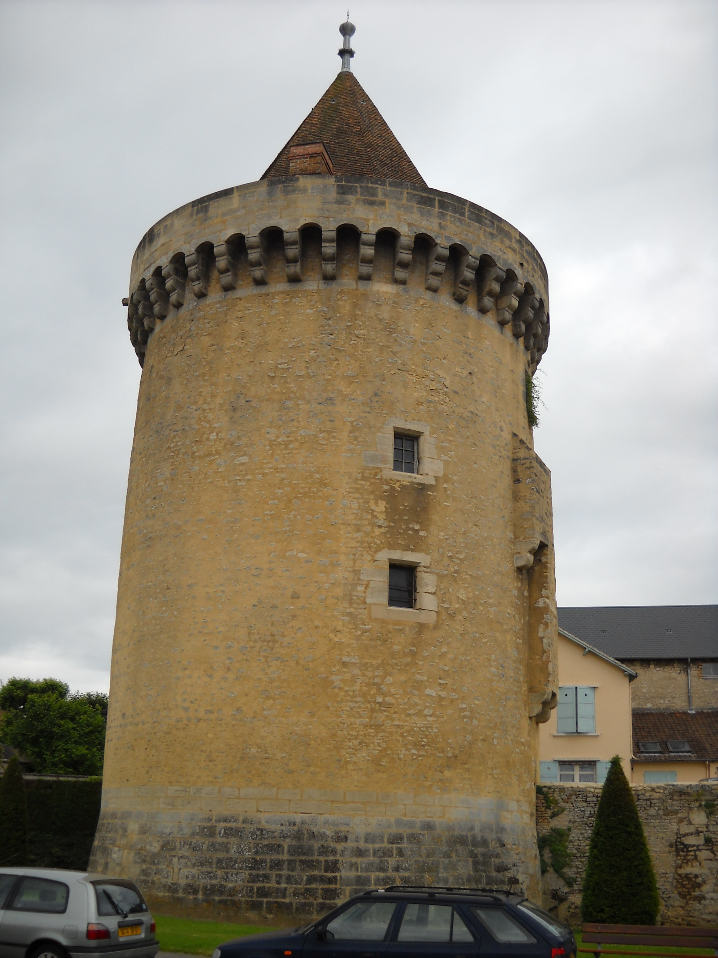 A vestige of the 12th century fortress of Argentan, Orne, France.